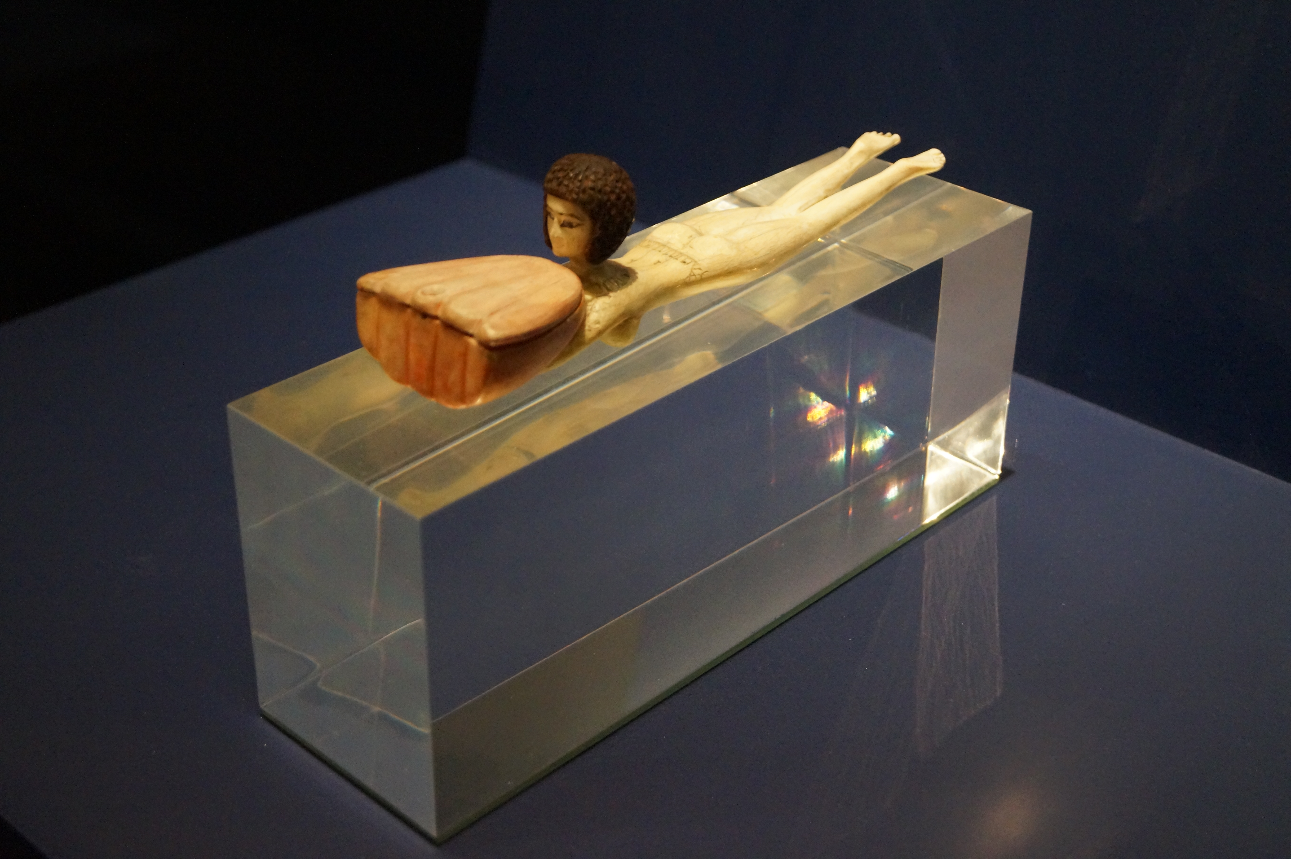 Cosmetic spoon in Pushkin Museum, Moscow. New Kingdom. Dynasty 18, reign of Amenhotep III, ca. 1388-1351 BC ivory, ebony, paint